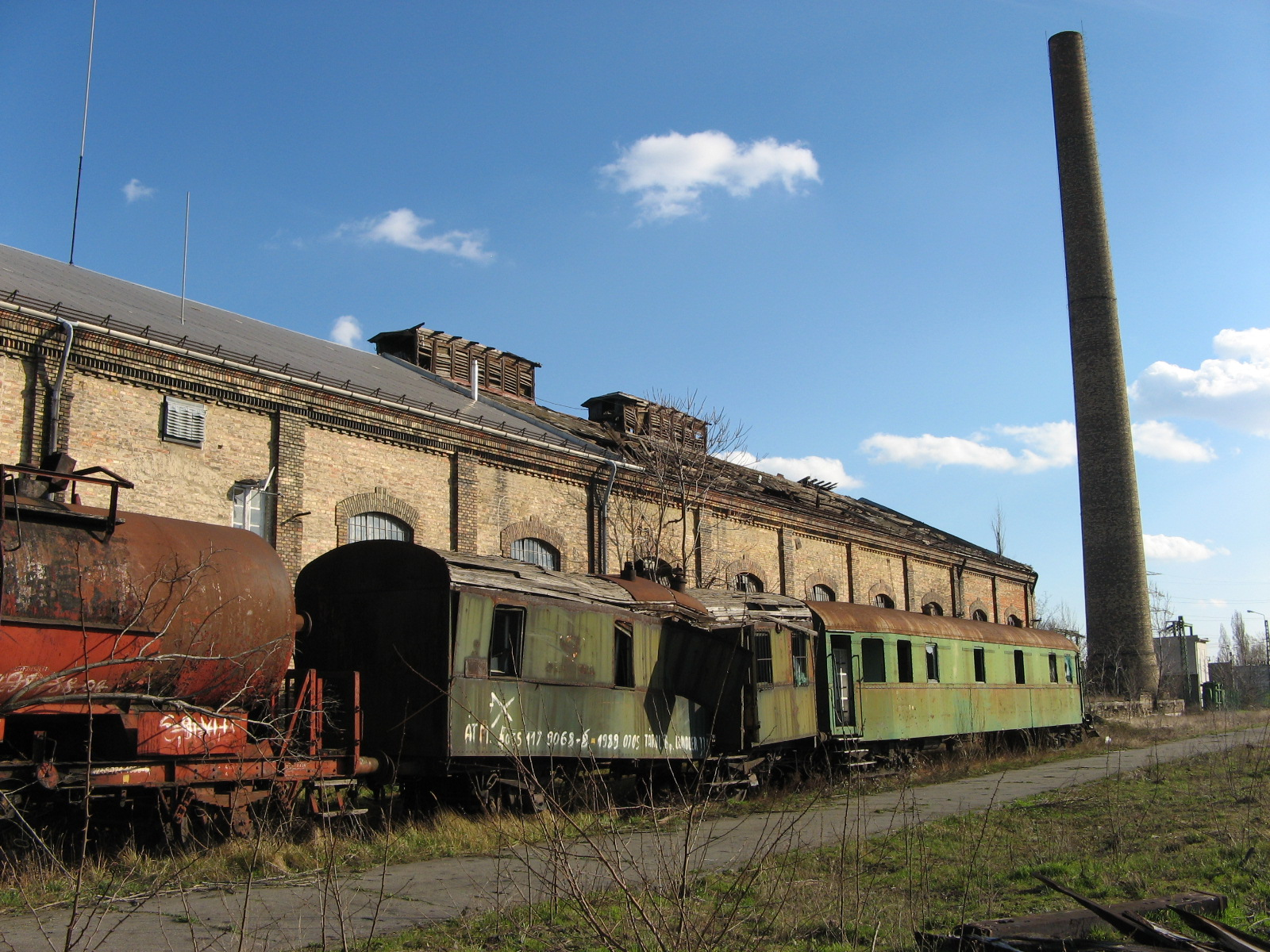 Abandoned trains at Istvántelek